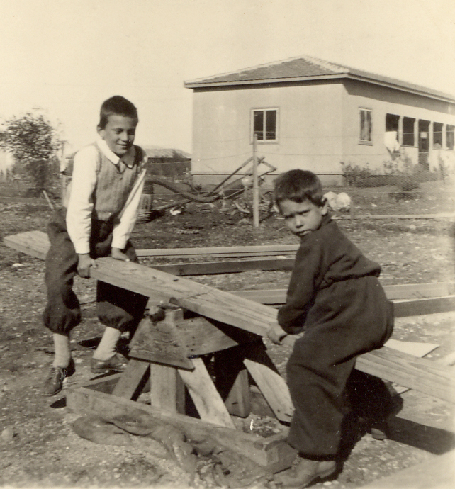 Children play in the kibbutz, Settlements in Israel